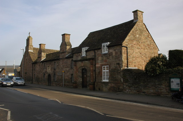 Coningsby Hospital The thirteenth century chapel and hospital of the Order of St John dissolved by Henry VIII in 1540.